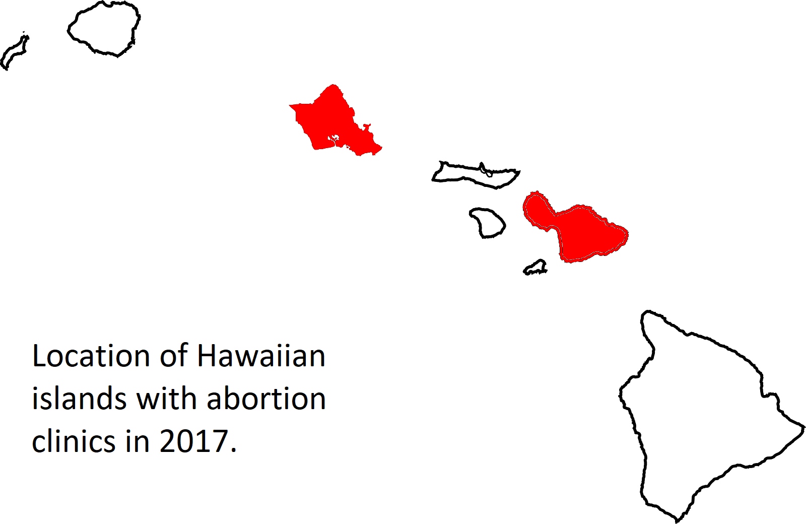 This is a derivative of It shows where abortion clinics were located in Hawaii in 2017.